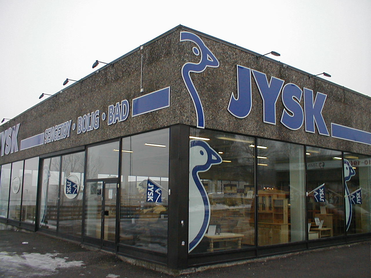 JYSK in Norway